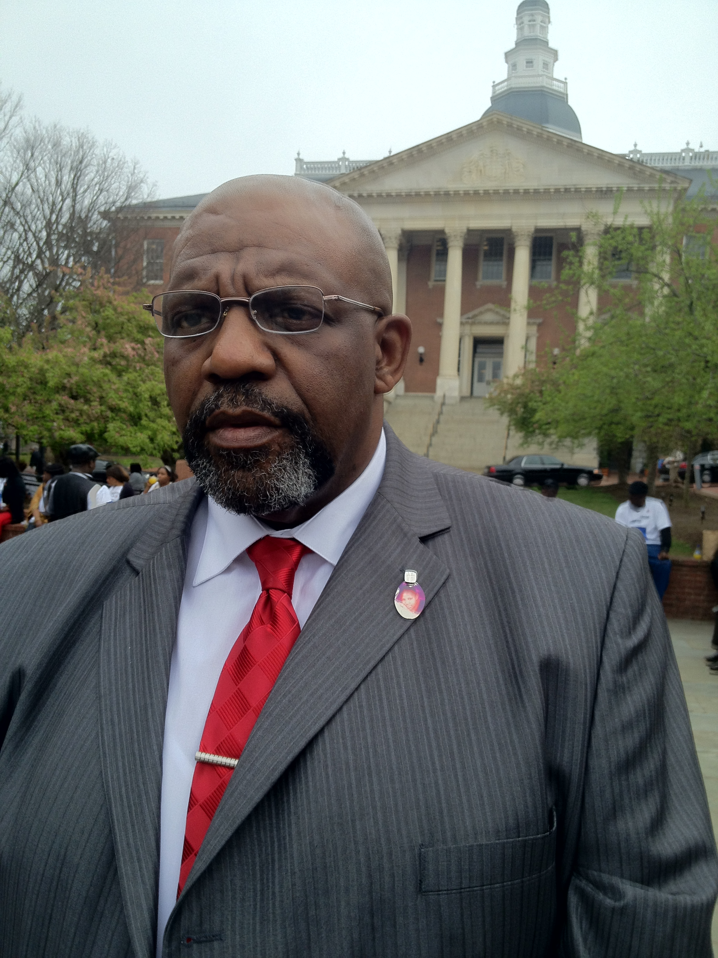 Former NFL lineman Bubba Green in front of the Maryland State House in Annapolis